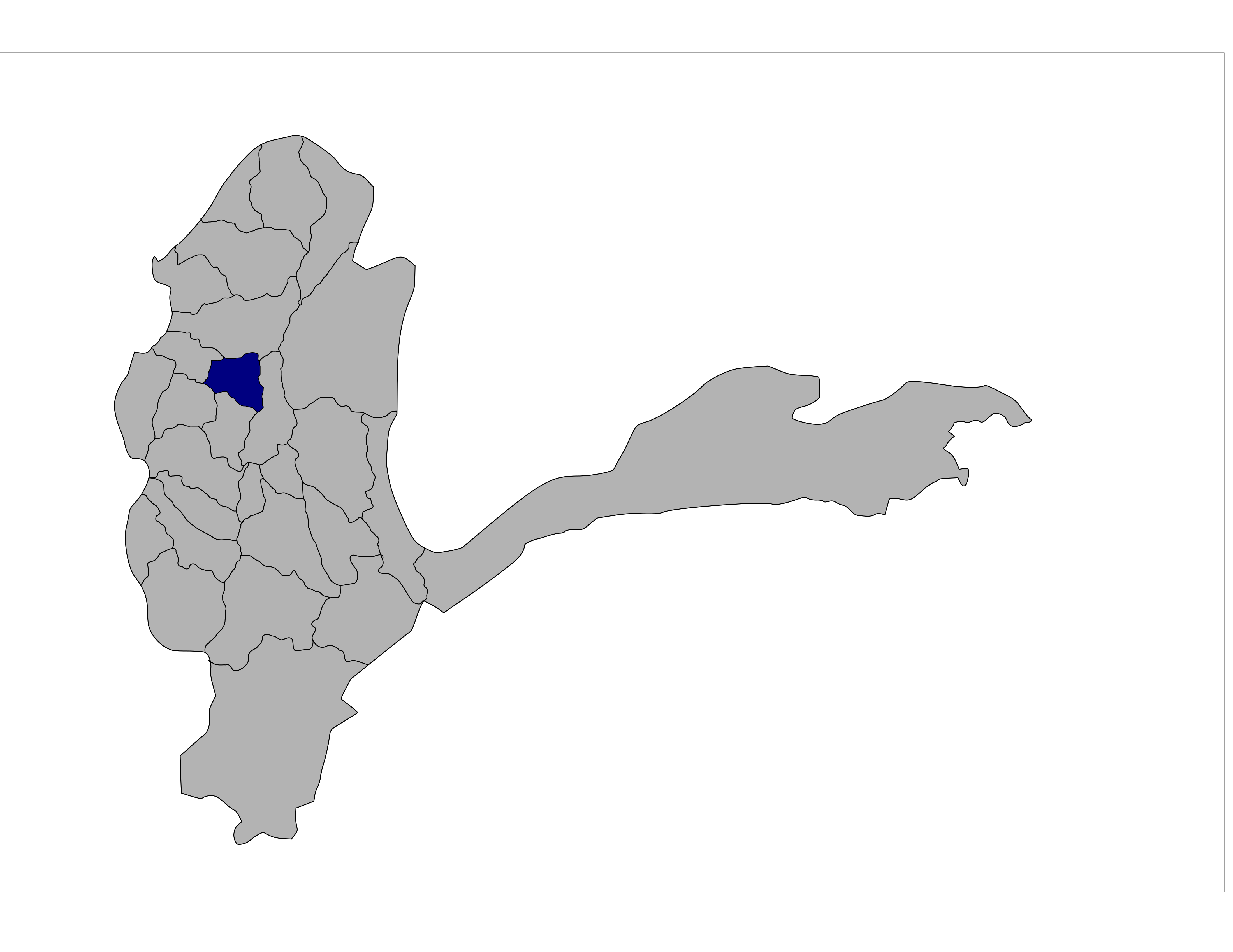 Shows the boundaries of Kohestan District, Badakhshan Province, Afghanistan.